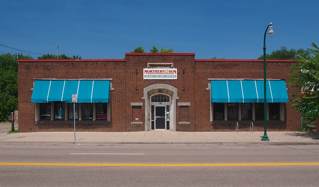 The former East Lake Branch Library (now Northern Sun), 2916 E. Lake St., Minneapolis, Minnesota, USA. Viewed from the south.